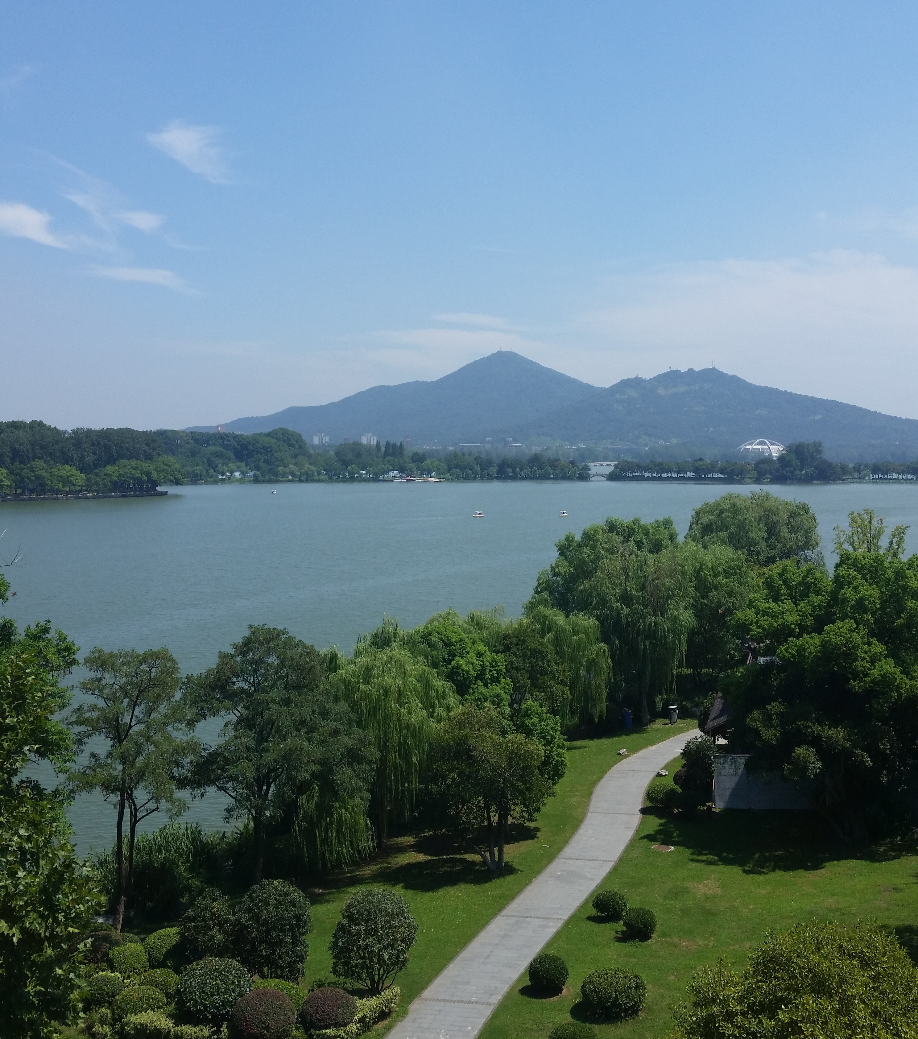 xuanwu lake, nanjing